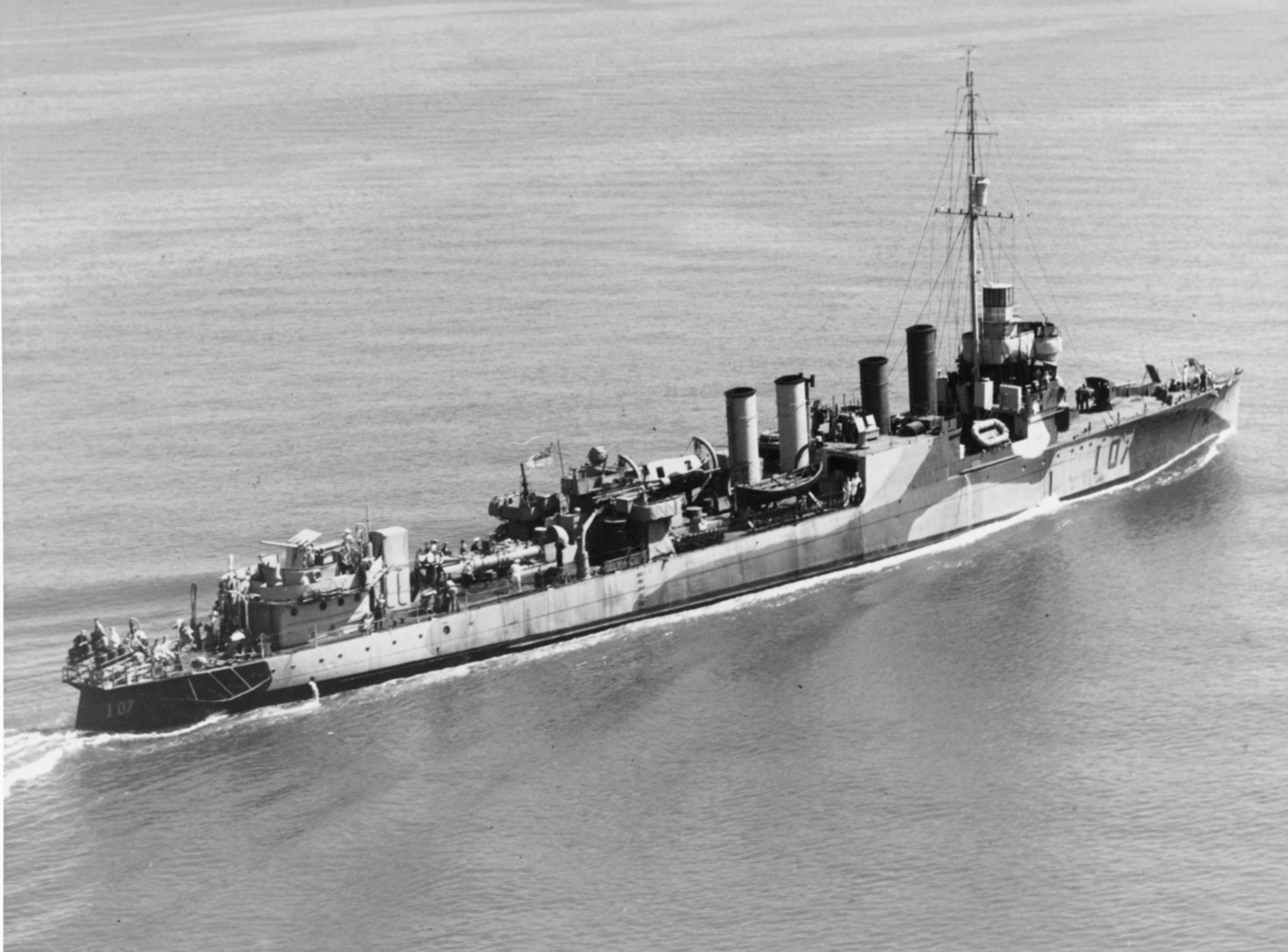 The Royal Navy destroyer HMS Roxborough (I07) (ex-USS Foote, DD-169) underway in Hampton Roads, Virginia (USA), on 3 September 1942. Note typical British modifications to this former U.S. Navy "Flush deck" destroyer.